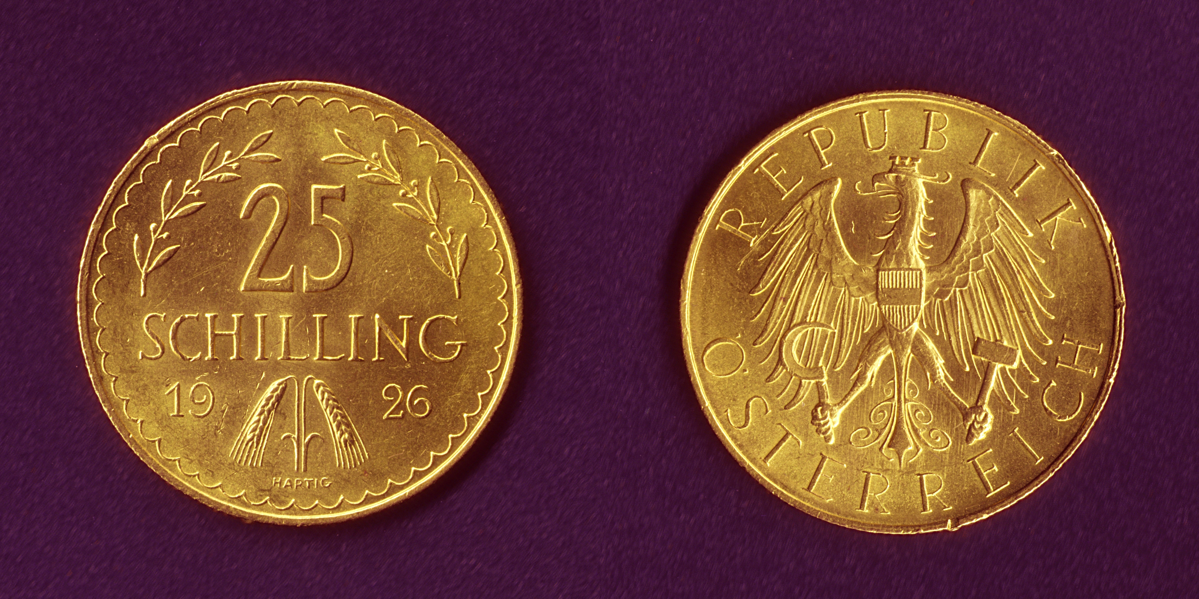 25 Schilling from austria, year: 1926, head: eagle of the federal republic austria, designer: Arnold Hartig, material: gold 900/1000.